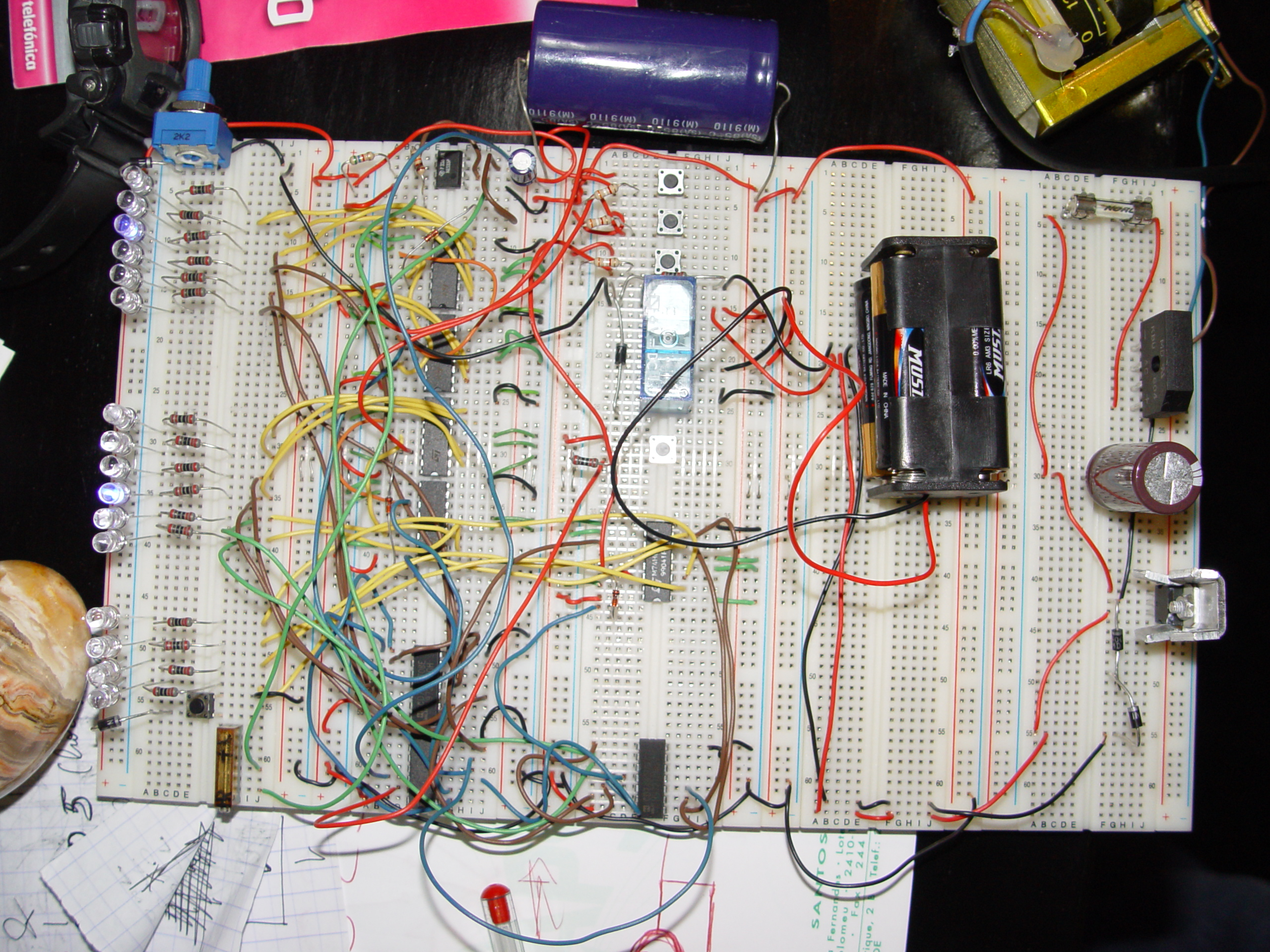 author: Diogo Sousa aka orium description: A binary watch made by me